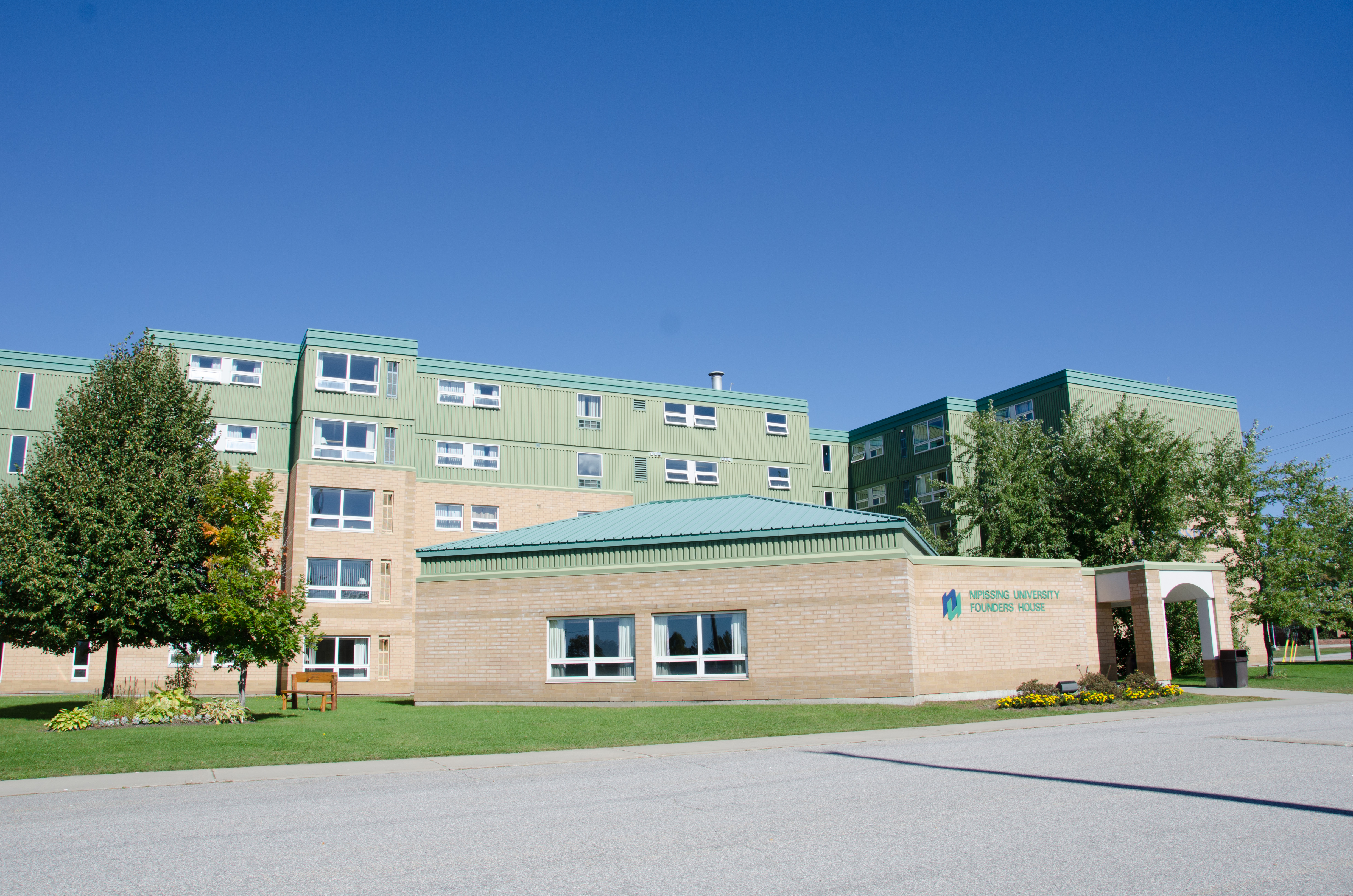 A picture of the front of Governors House, one of the suite-style residences of Nipissing University